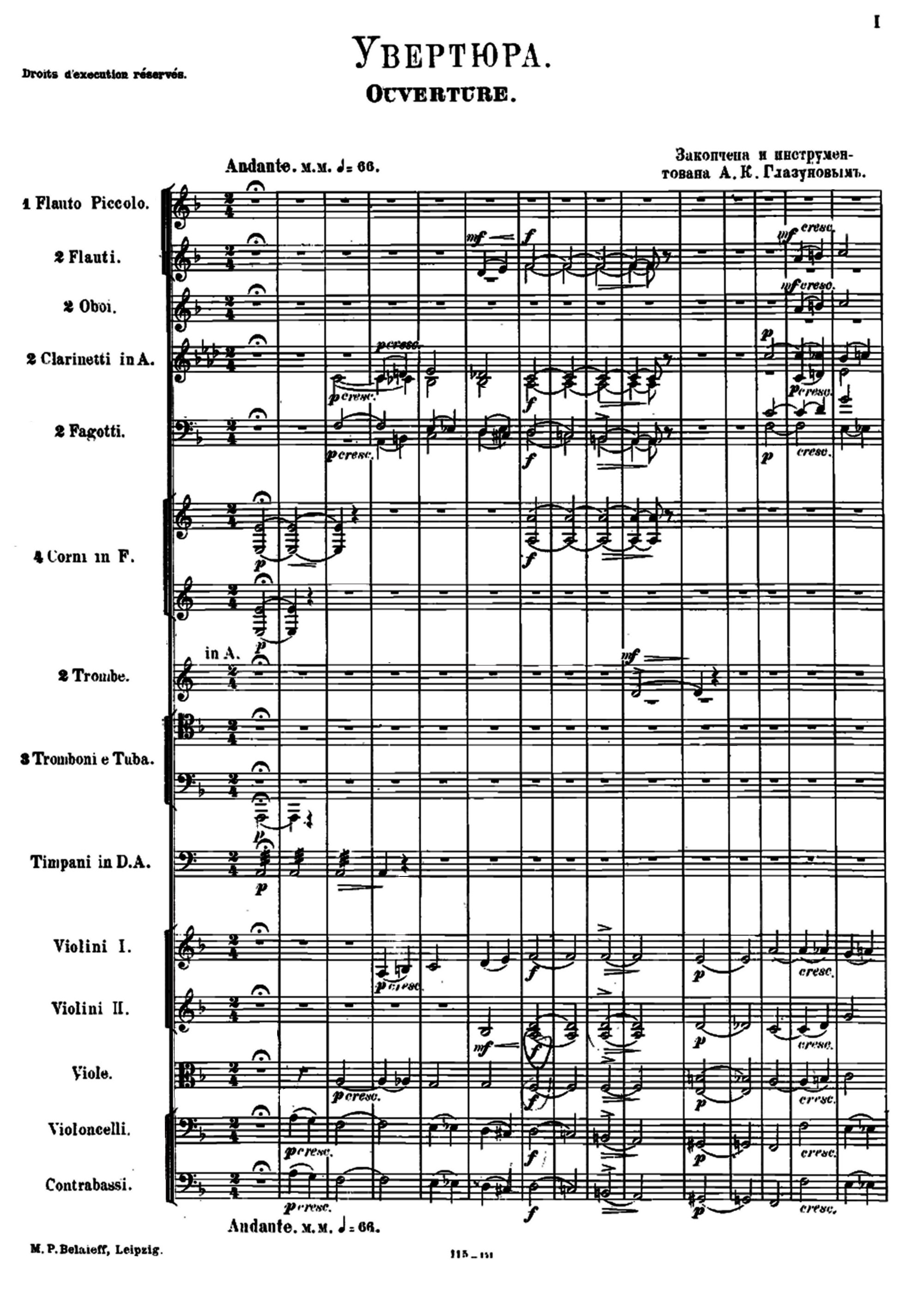 Alexander Borodin Prince_Igor_Full_score_01.jpg